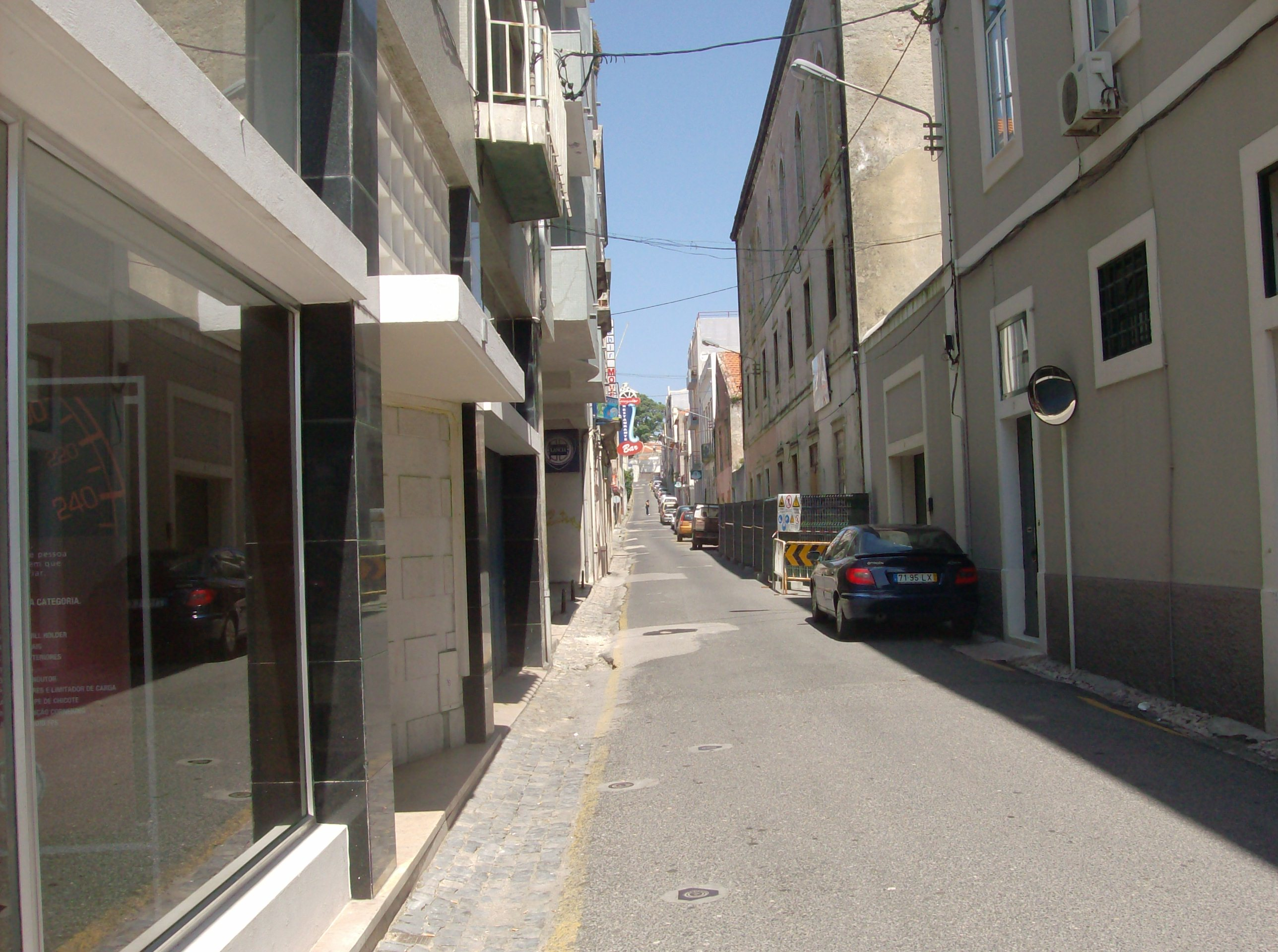 Rua dos Combatentes da Grande Guerra, Figueira da Foz